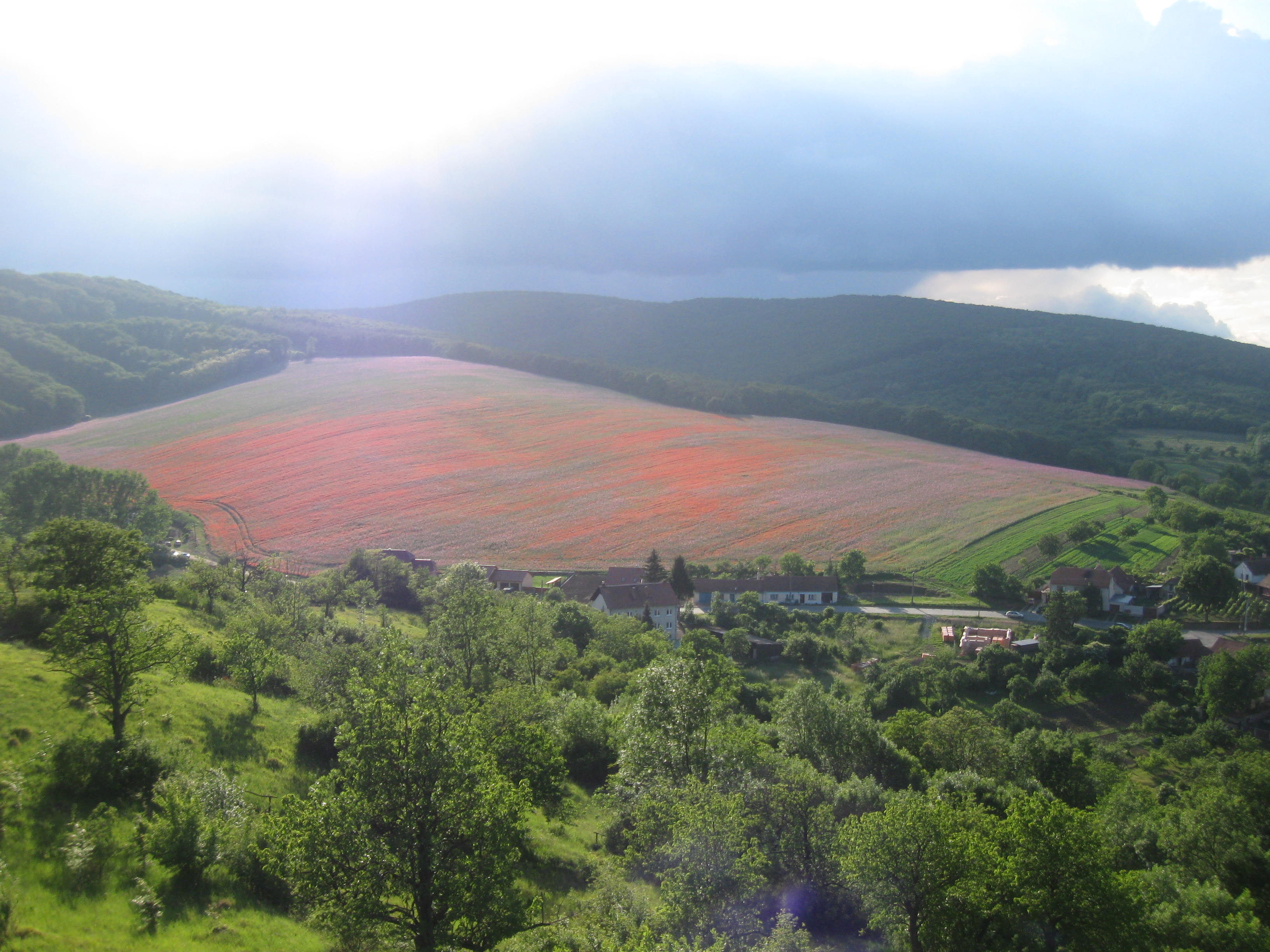 Přední kout hill, South Moravia